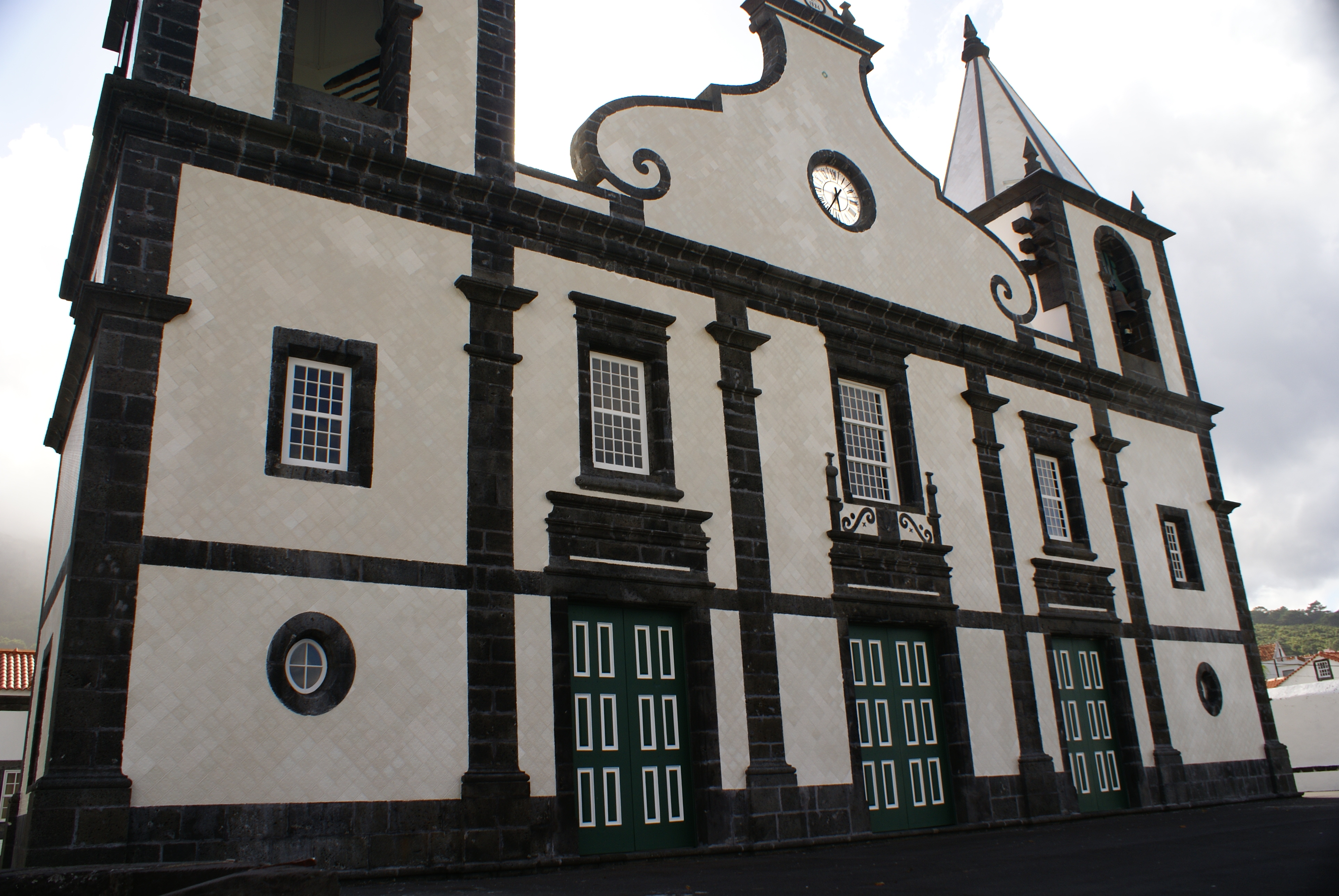 Front façade of the Church of Nossa Senhora da Ajuda, Prainha, São Roque, Pico (Azores), Portugal